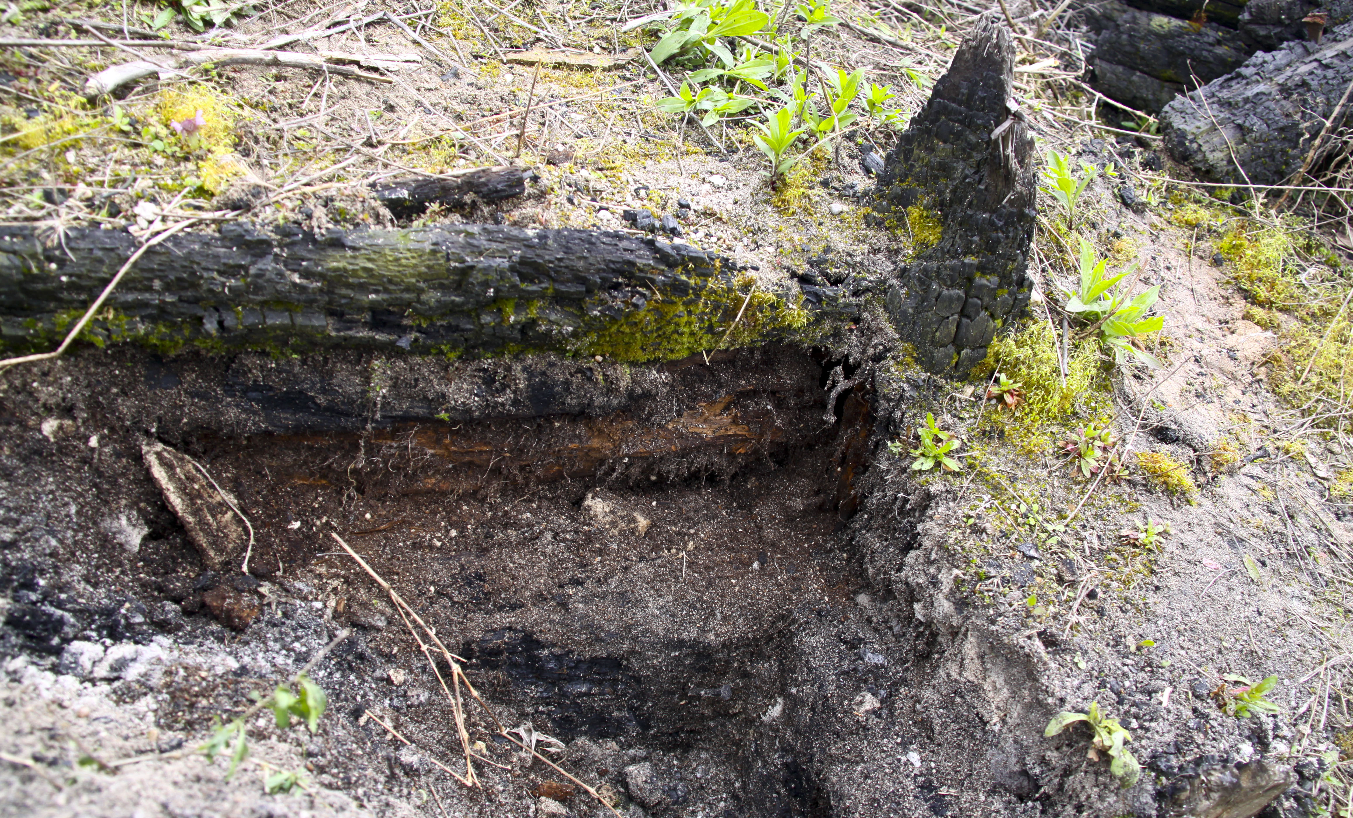 Purcăreni, Argeş county, Romania: the former wooden church.